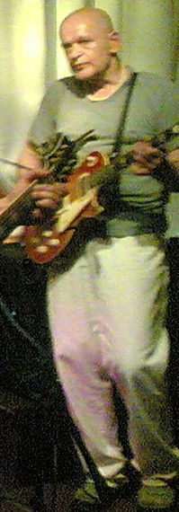 Eelco Gelling (former of Cuby and the Blizzards) at the last opening night of Café de Beukelsbrug in Rotterdam. Cropped image to remove other persons in the picture.